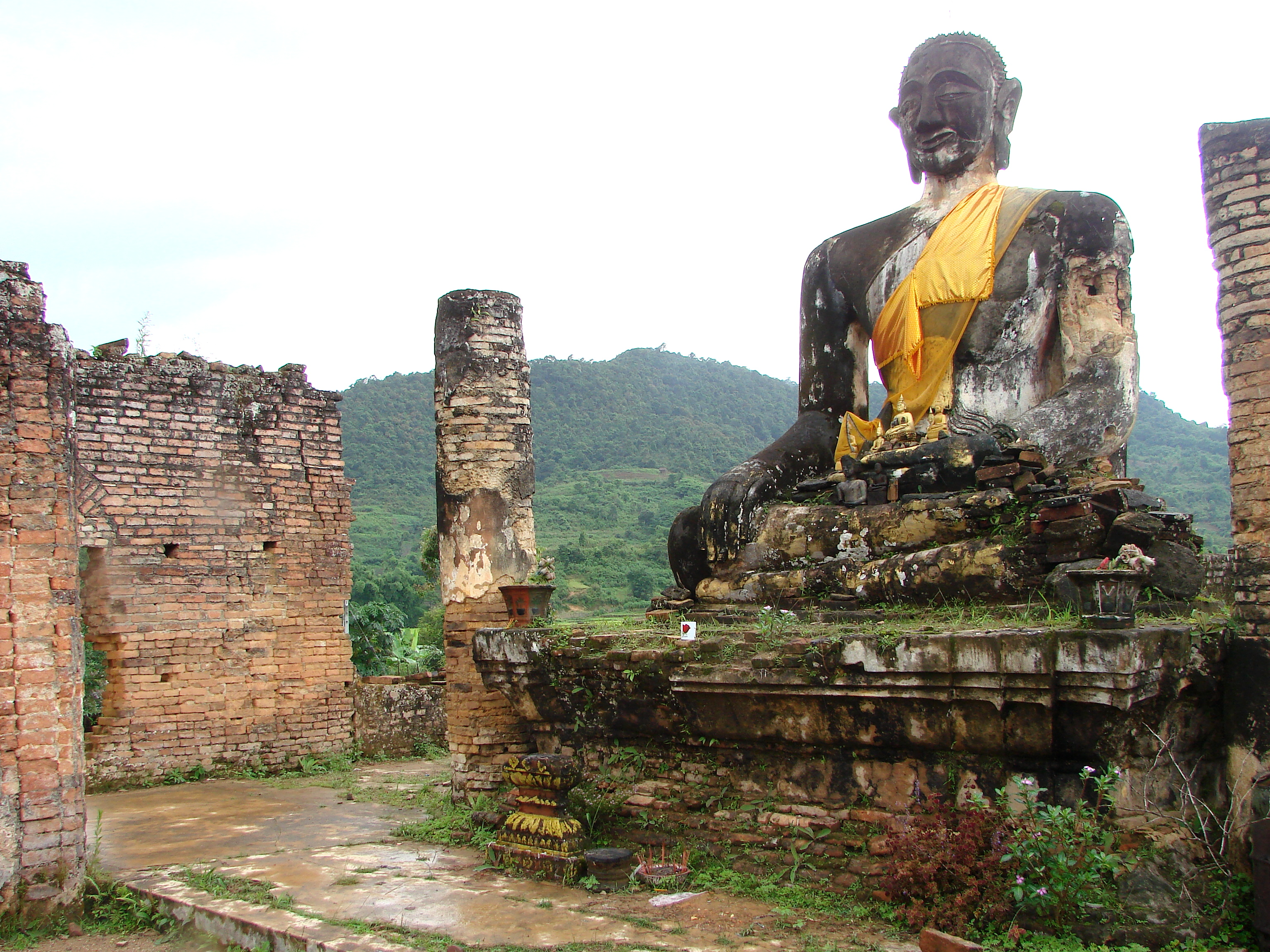 Ruins of Muang Khoun, former capital of Xieng Khuang province, destroyed by US bombs in the late 1960s. June 2009.